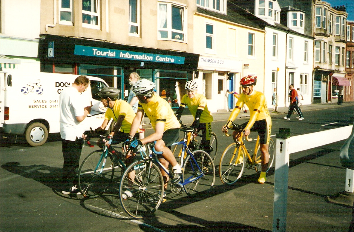 A member of Lomond Roads Cycling Club riding a time trial.